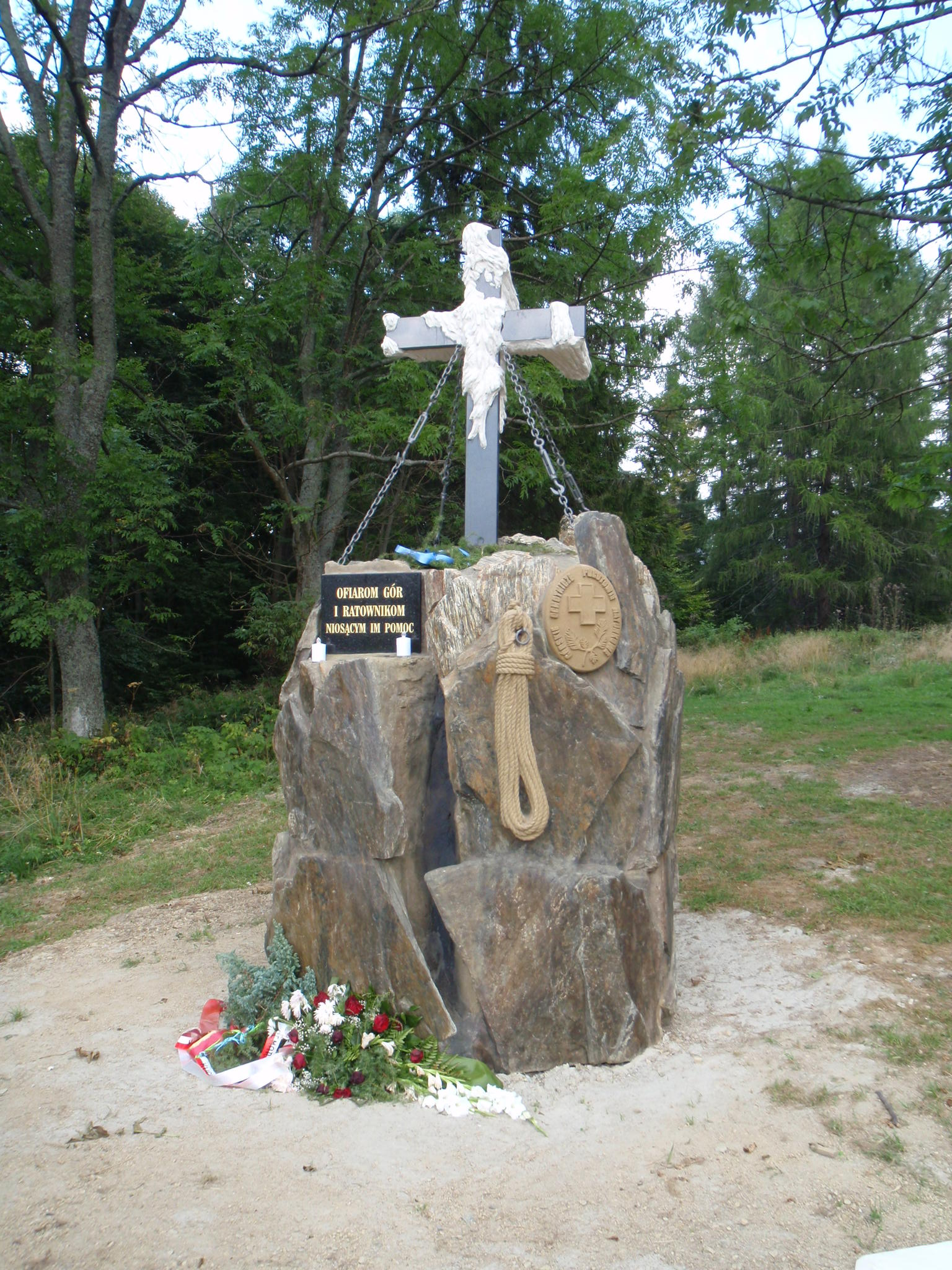 Memorial of mountains victims and their rescuers at Wyżna Pass in Bieszczady Mountains